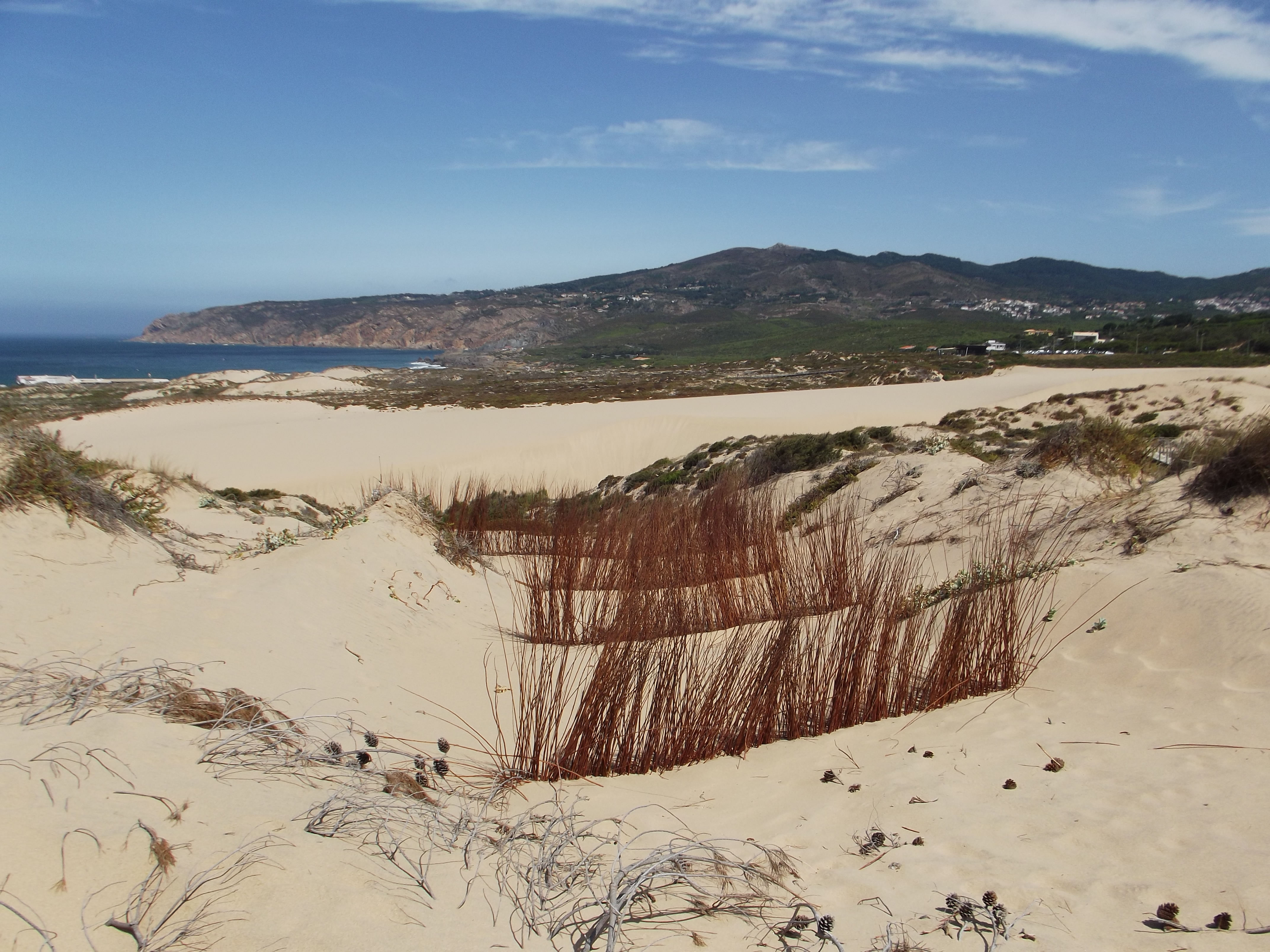 View of the dunes of Cresmina, near Cascais, Portugal. Sticks inserted to arrest movement of the sand.